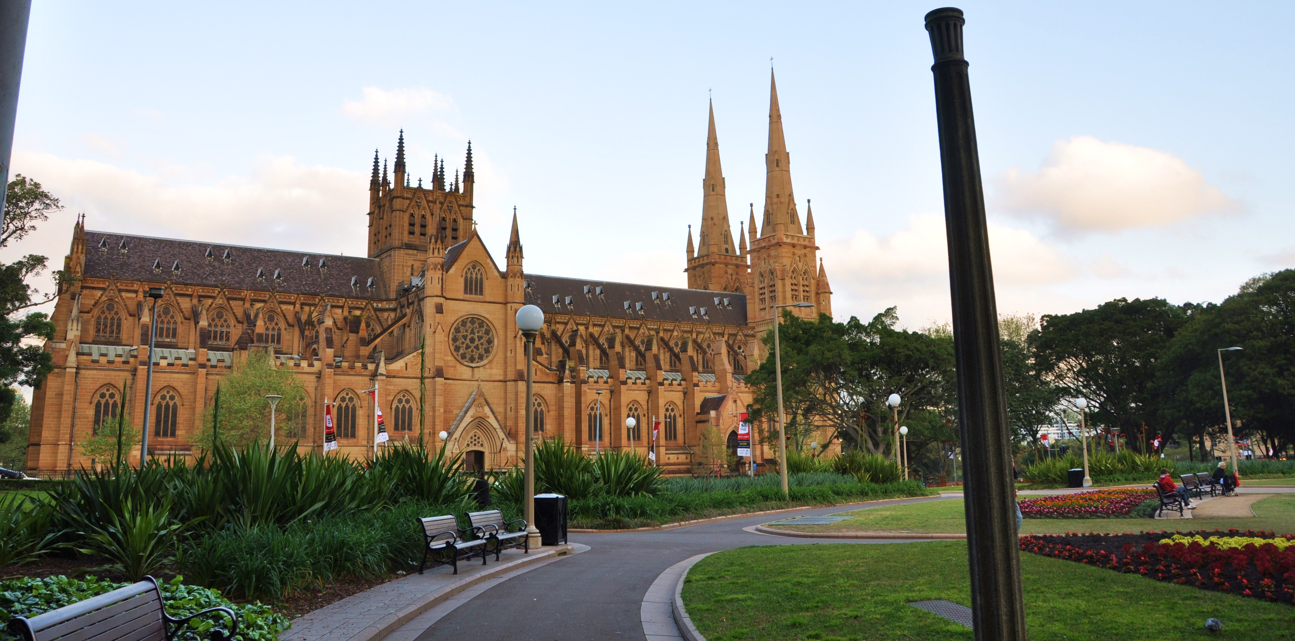 St Marys Cathedral, Sydney